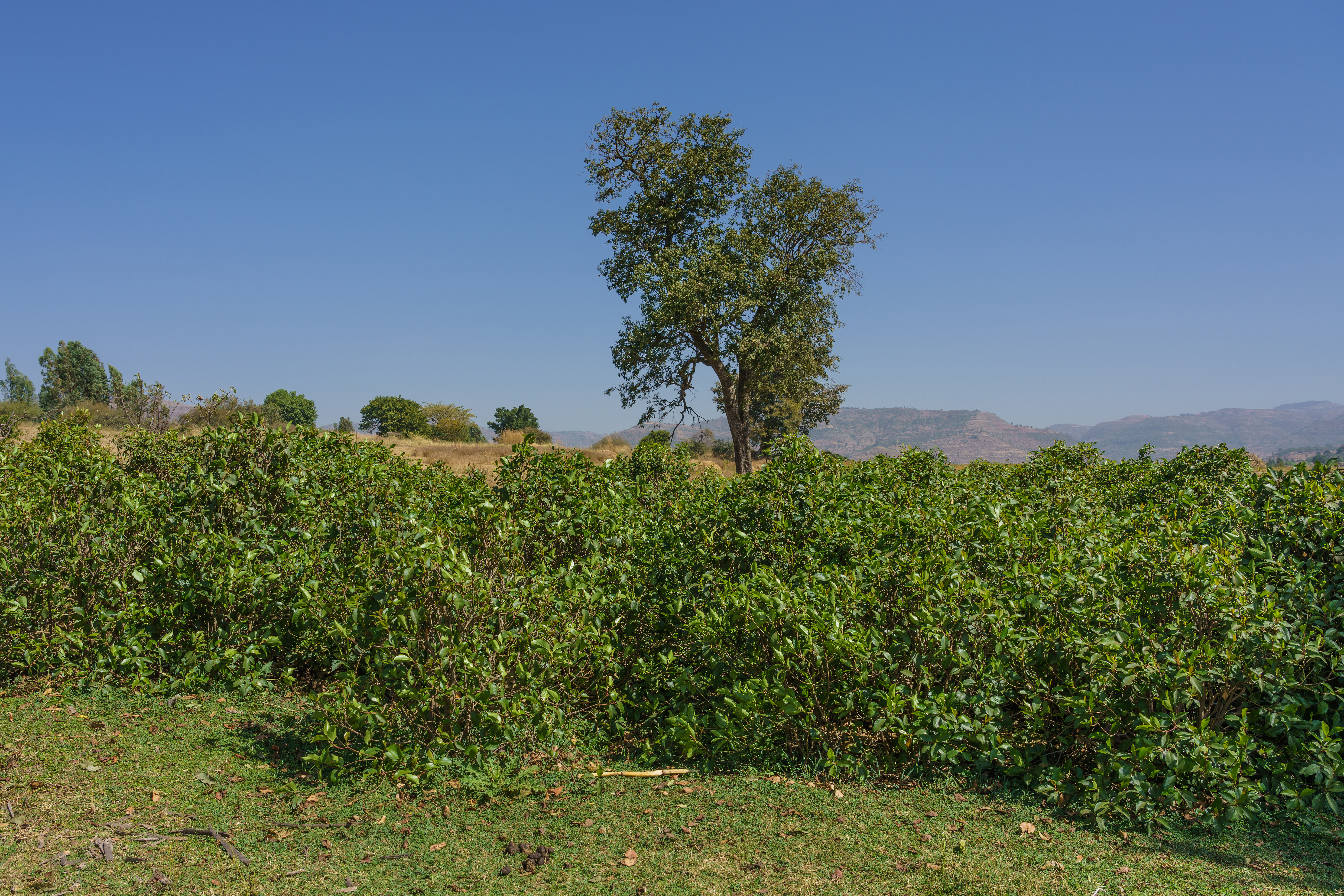 Khat plantation at Tis Issat near Bahir Dar, Ethiopia